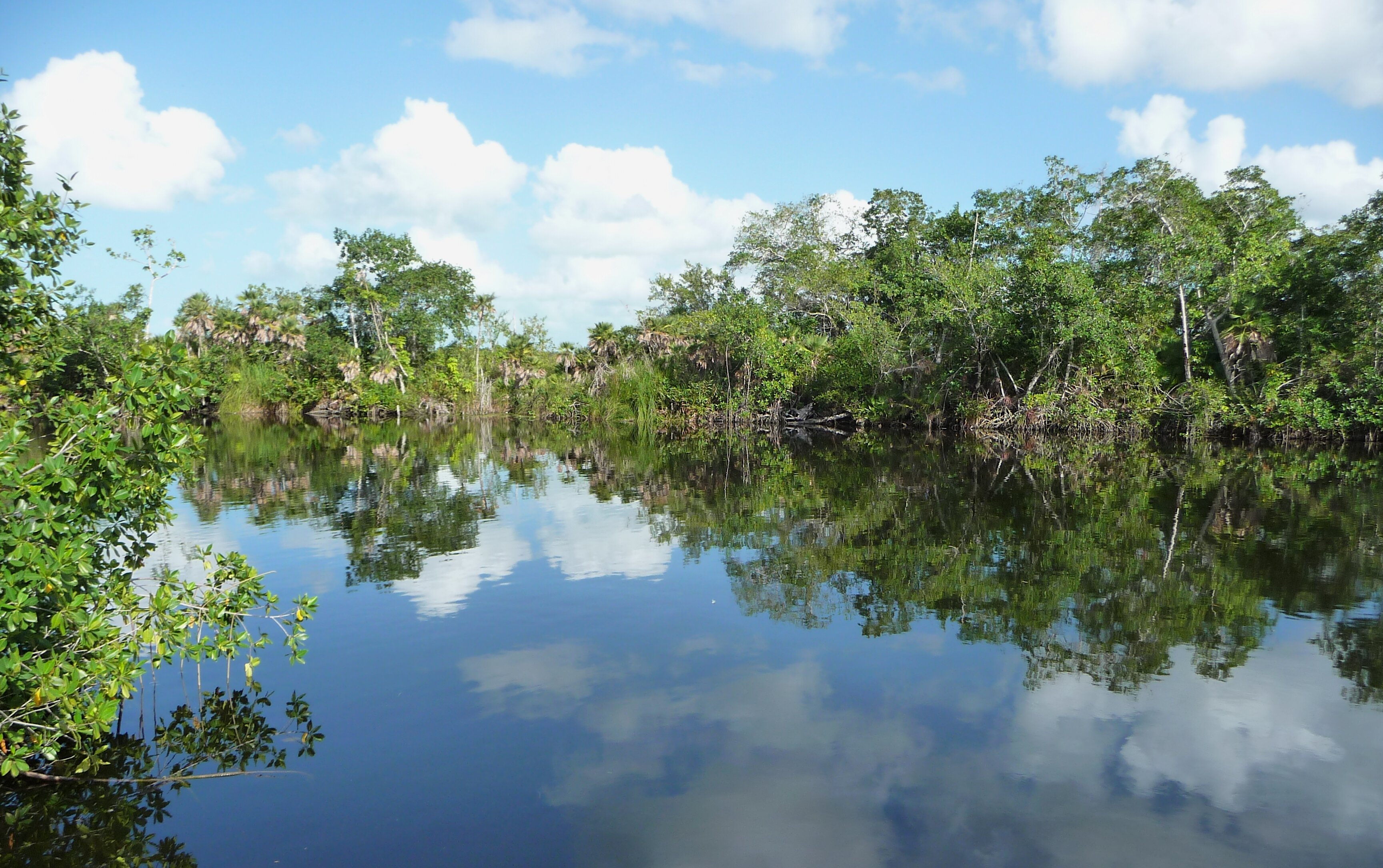 The New River near its estuary into the Caribbean Sea (Corozal District, Belize).